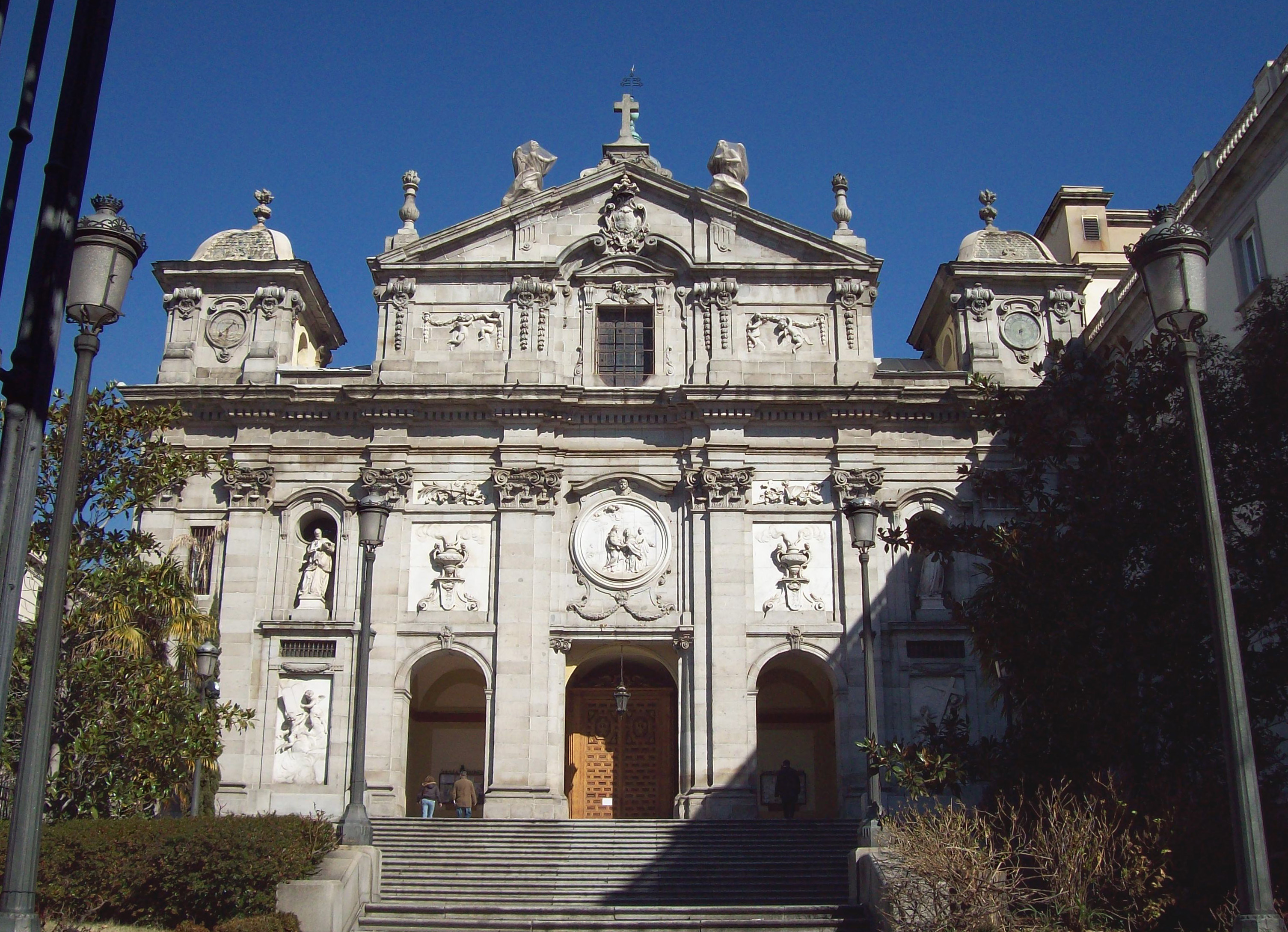 South façade of Iglesia Parroquial de Santa Bárbara ("Parish Church of St. Barbara") in Madrid (Spain).